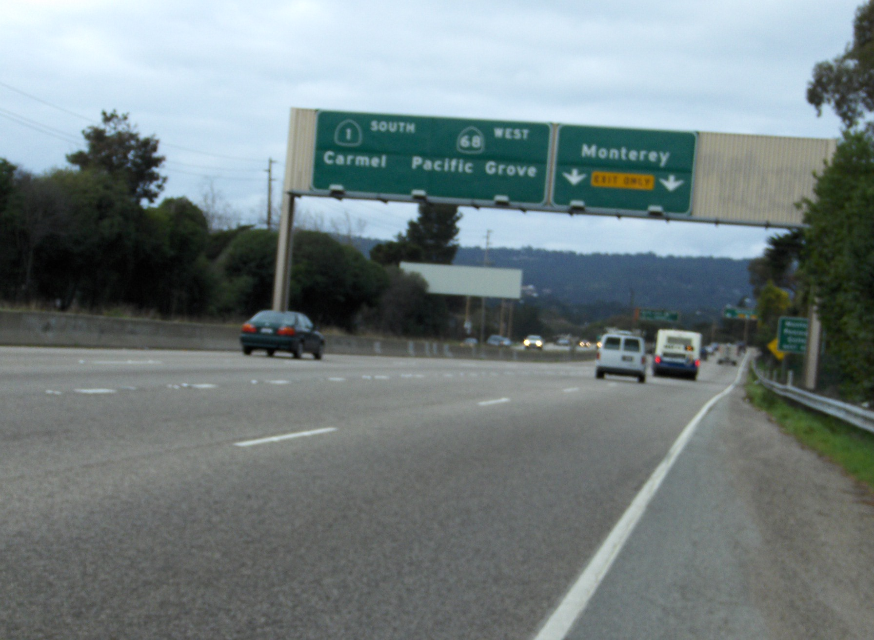 California State Route 68 westbound from it originates in Monterey, CA.